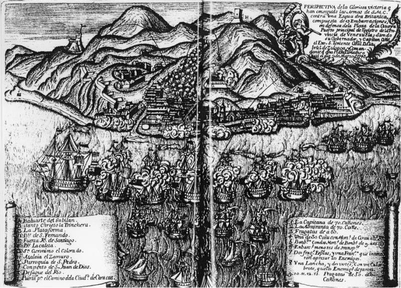 Engraving of the attack on La Guaira 1743 by the British.